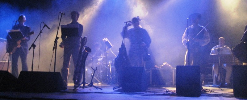 Trebunie Tutki and Voo Voo in concert